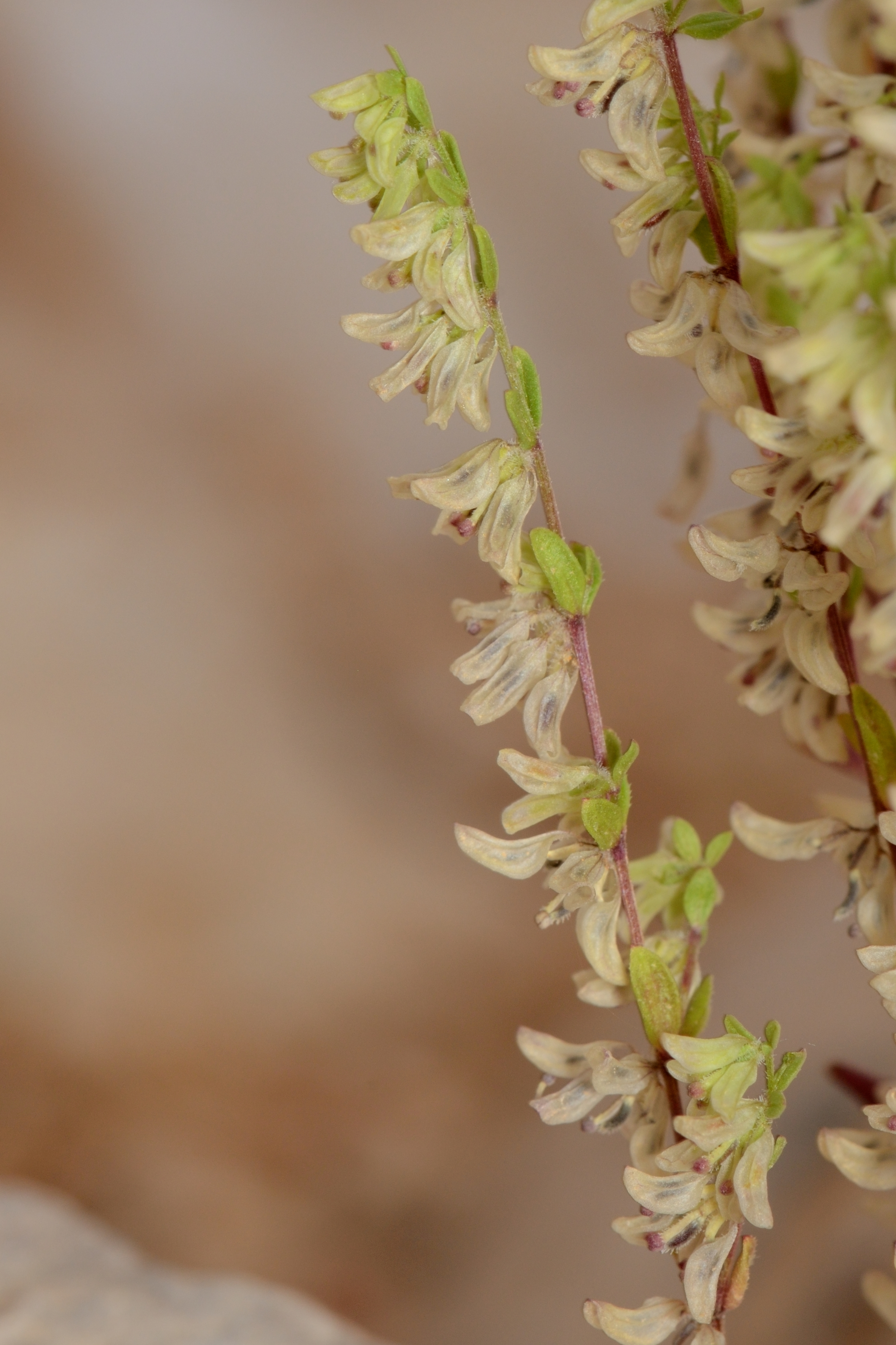 Callipeltis cucullaris (L.) DC., Nahal Eliav, Negev Mountains, Israel, May 3, 2013.